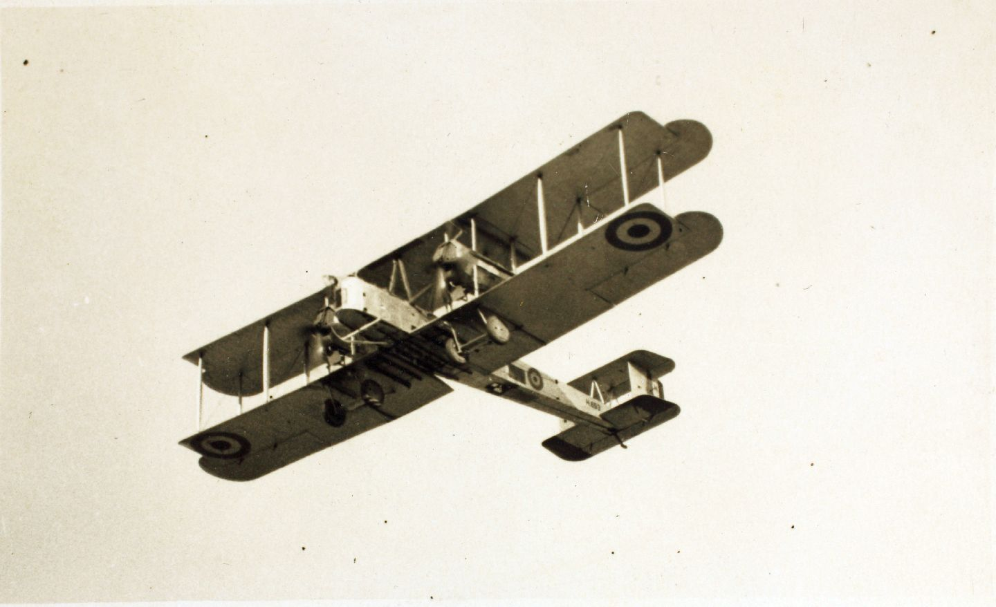 Vickers Vimy of Royal Air Force